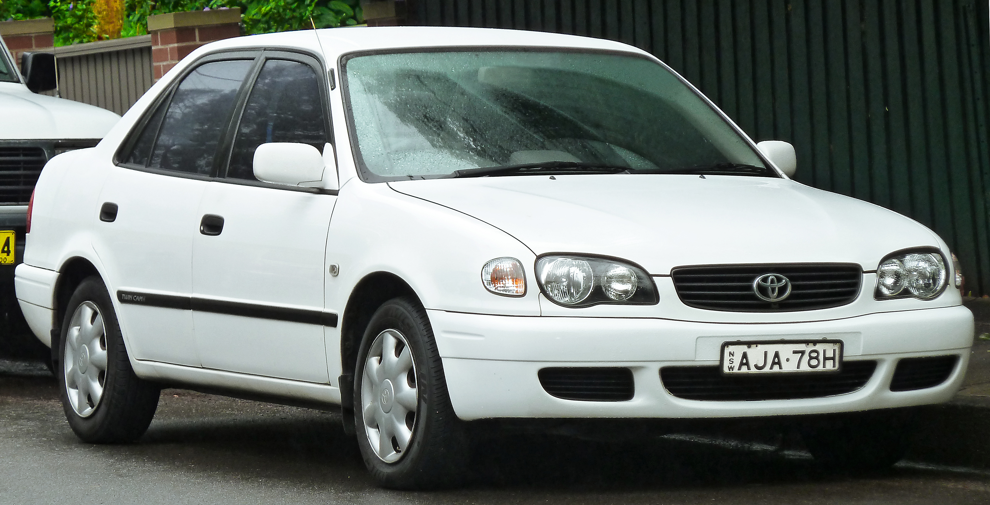 2000–2001 Toyota Corolla (AE112R) Ascent sedan. Photographed in Roseville, New South Wales, Australia.